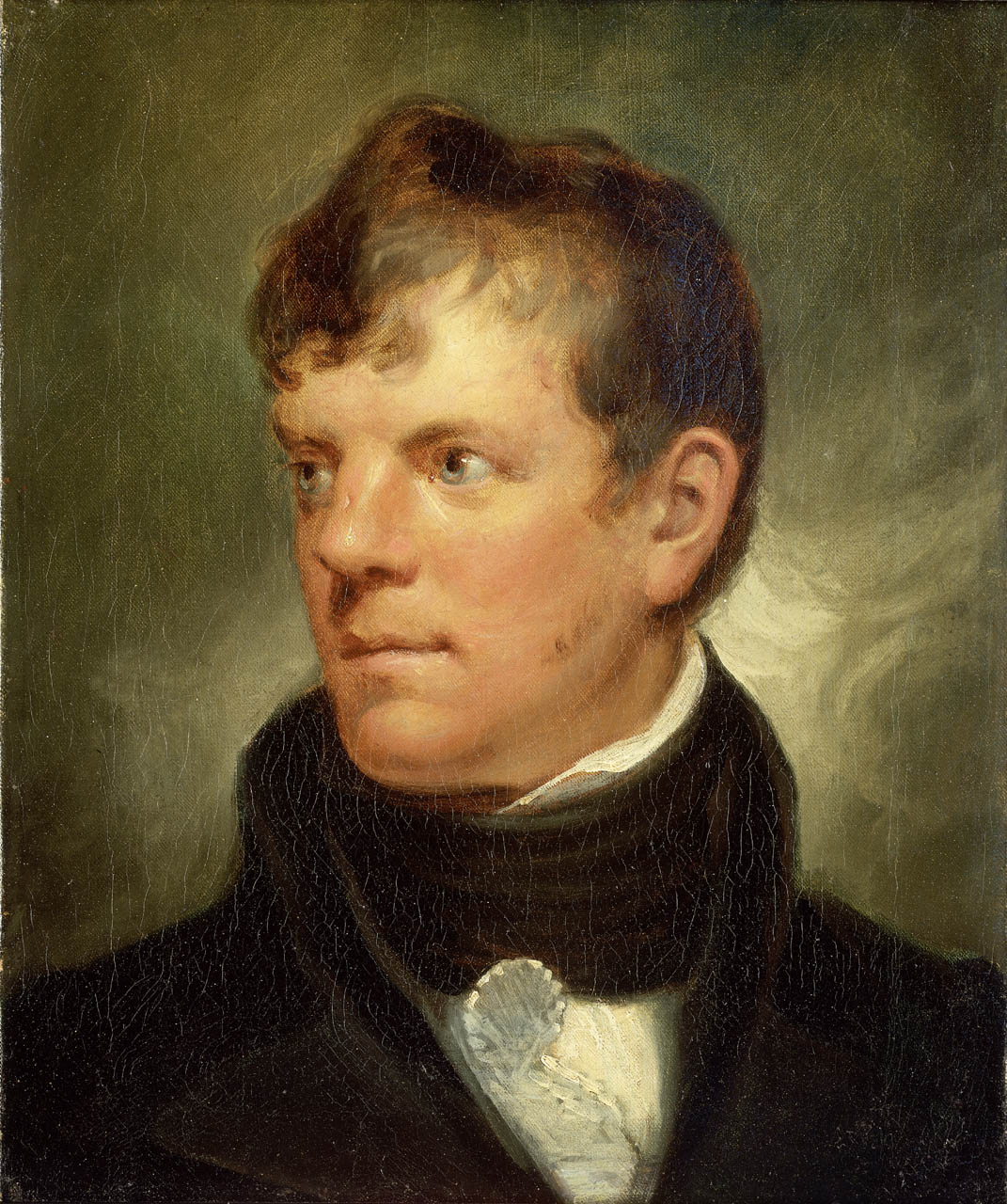 Captain William Rogers, b.1783 A head-and-shoulders portrait to left wearing a black coat, black neckerchief and stock and white collar and cravat. The portrait was probably done from life.